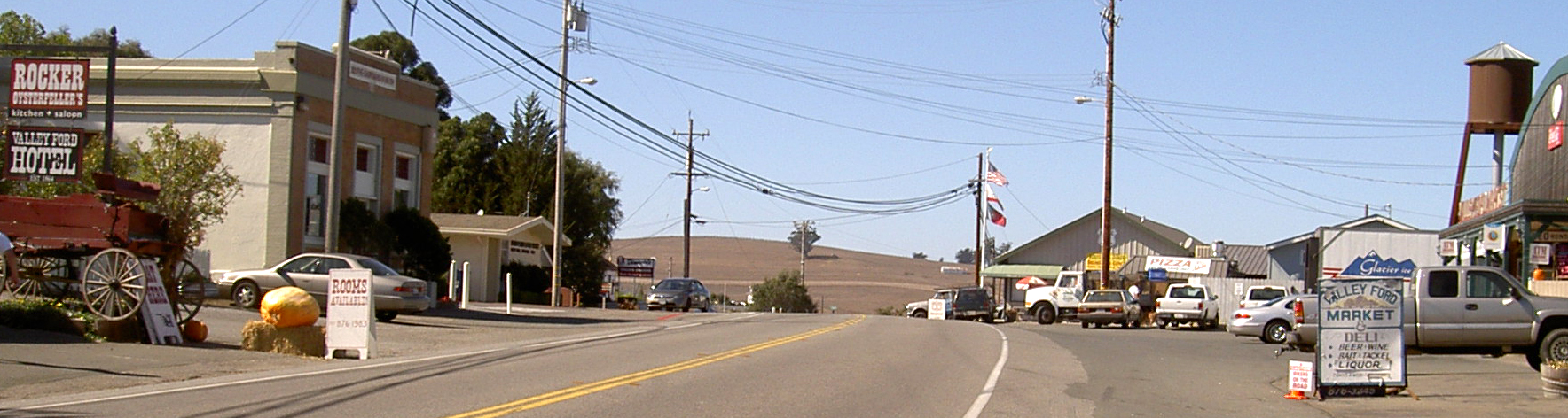 business district of Valley Ford, California, taken from State Route 1 looking north